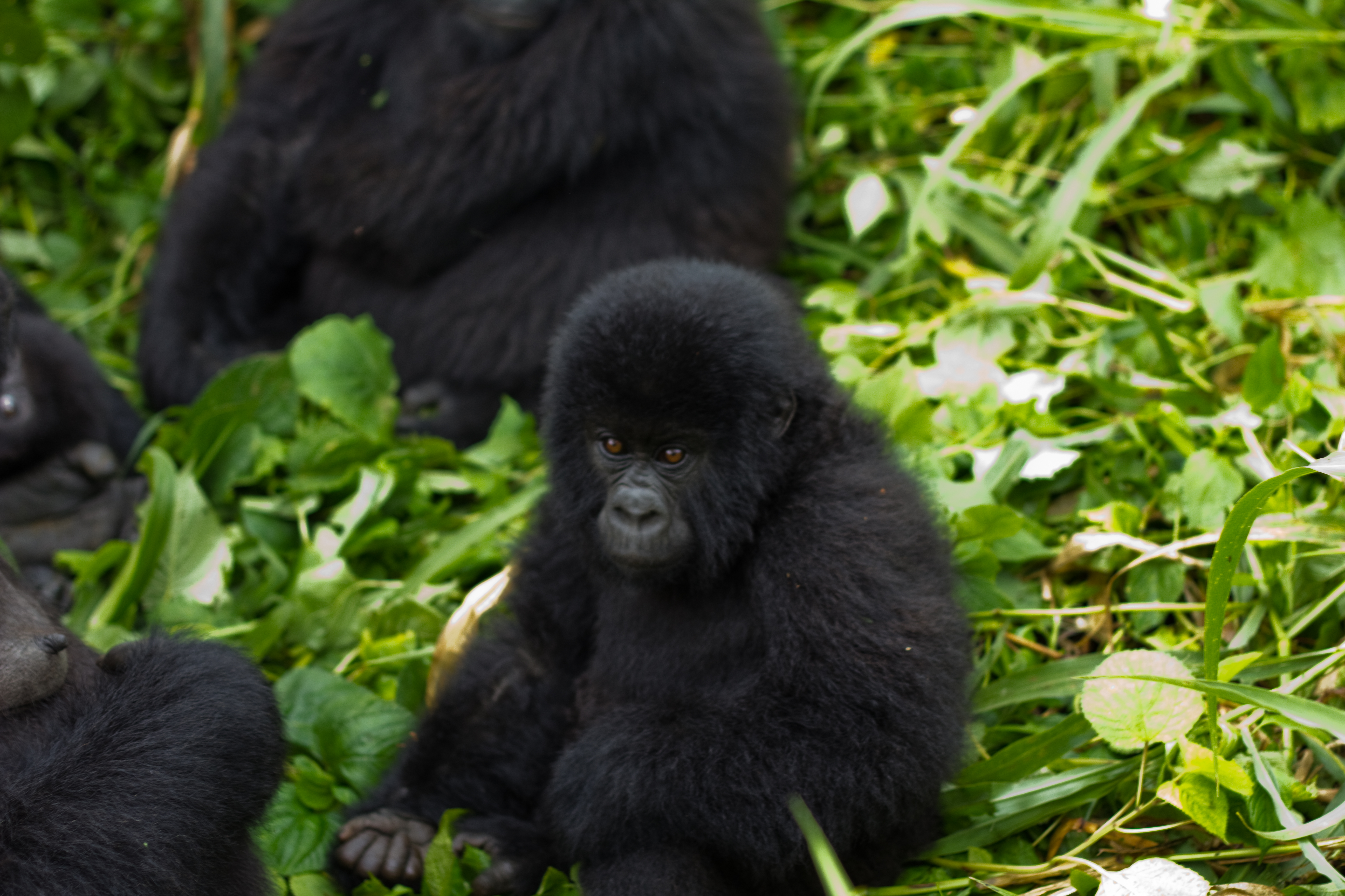 Baby Mountain Gorilla in Virunga National Park, the Democratic Republic of the Congo.